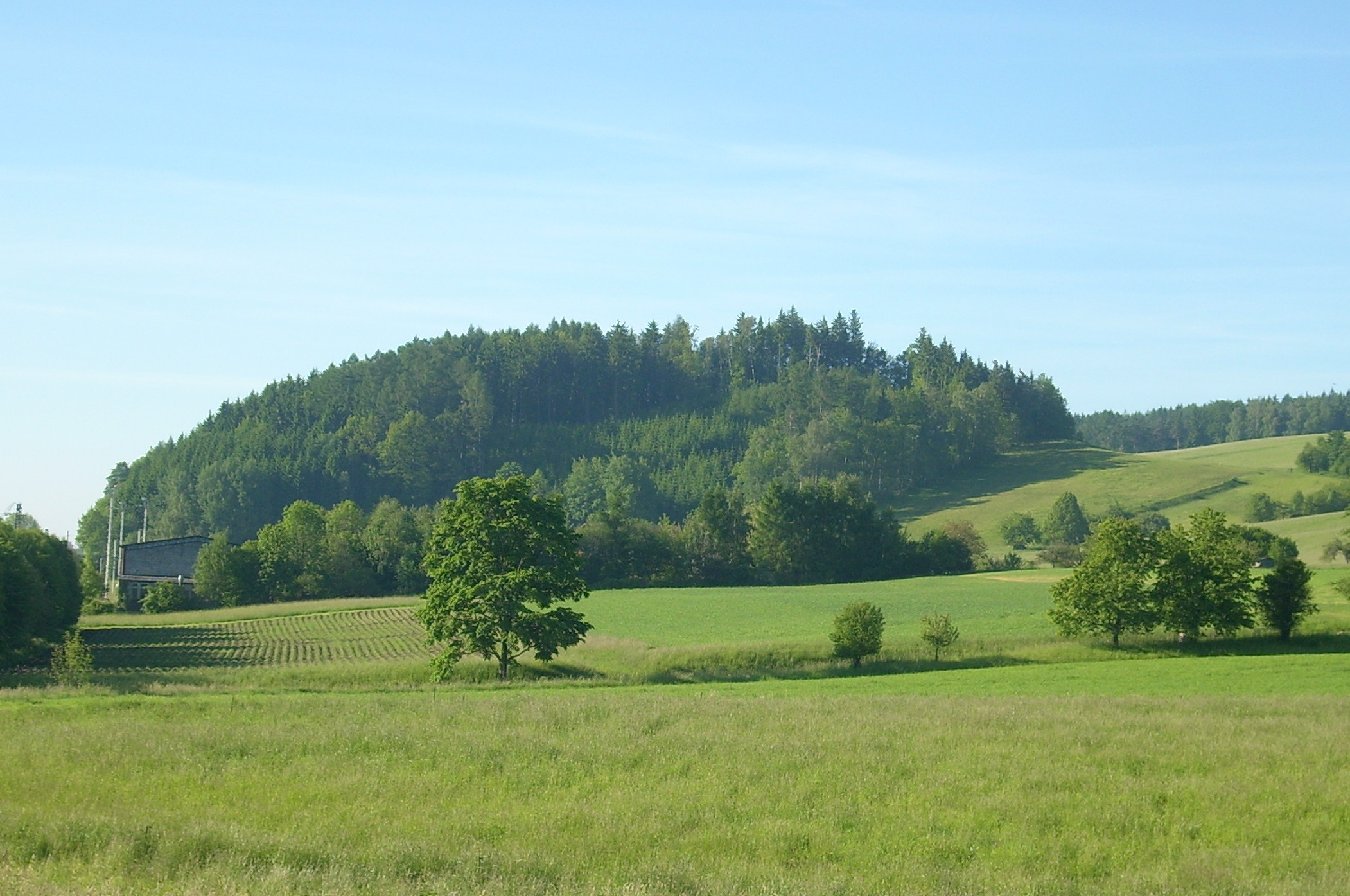 Hill Hůra near the village Dlouhá Třebová